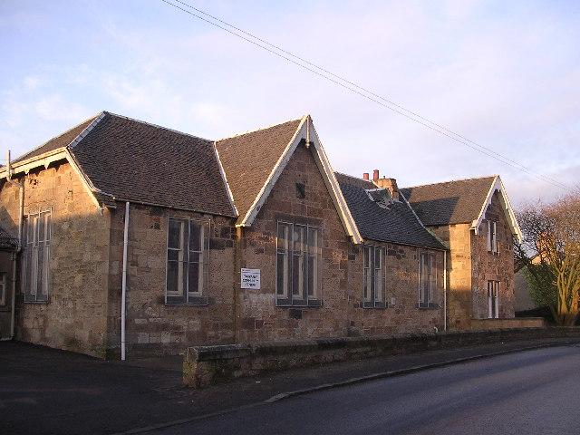 Torrance Community Centre.